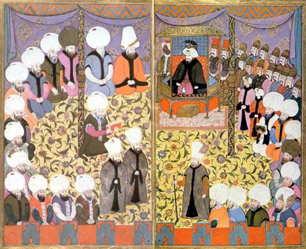 Sultan Ahmed III surrounded by courtiers and advisors in a tent. Ottoman miniature painting from the Surname-i Vehbi, Topkapı Sarayı Müzesi, Istanbul (Inv. 3594/51b)